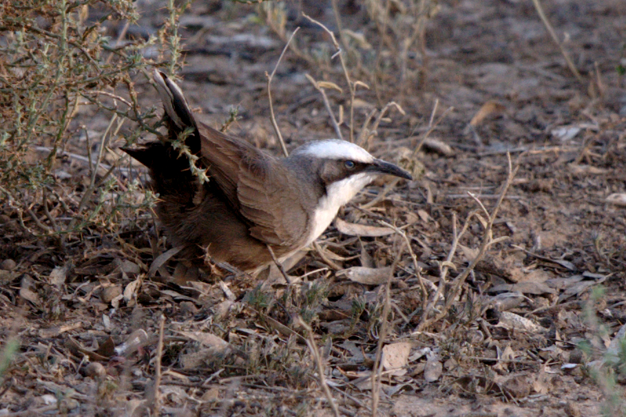 A Grey-crowned Babbler in Australia.